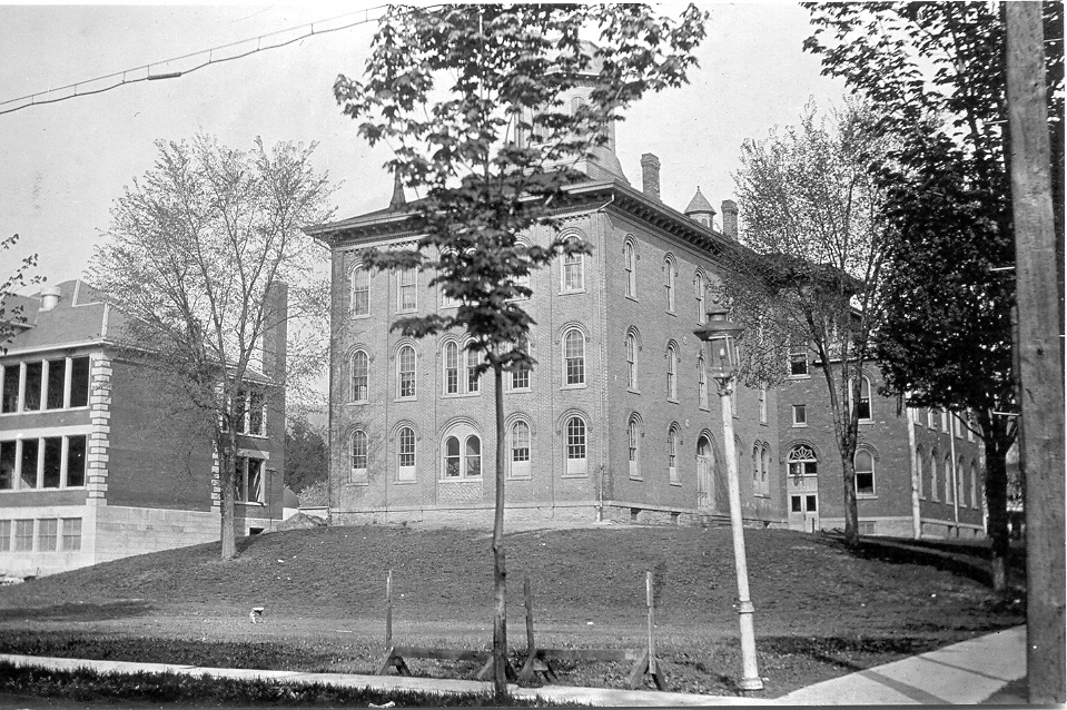 Both demolished about 1937, except for heating system (boilers) in elementary school. Picture taken from the corner of Greenwood and Academy Street. Note gas light. Overhead is telephone wire.